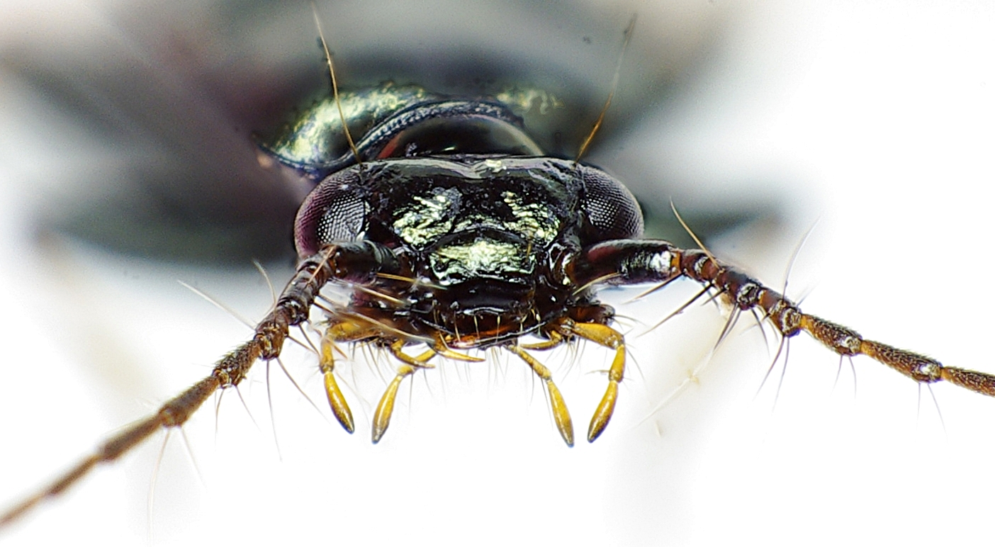 Front of Loricera pilicornis